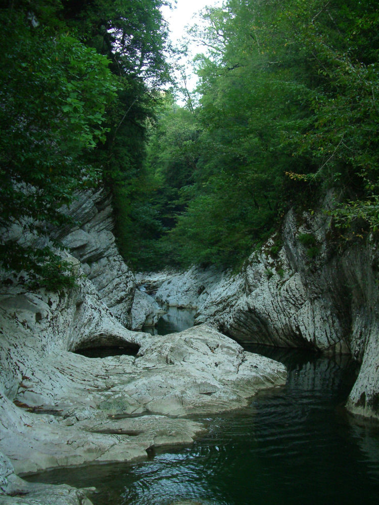 Navalishinsky Canyon in Khosta (Sochi).